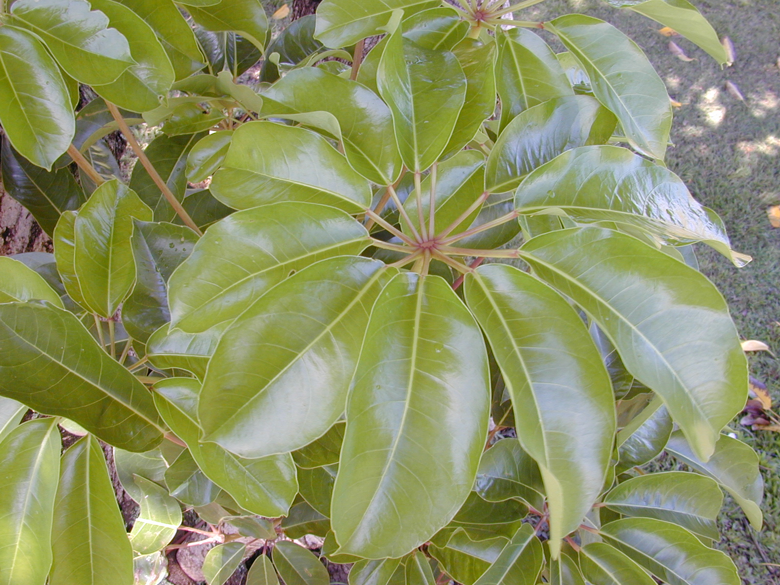 Schefflera actinophylla (leaves). Location: Maui, Haiku